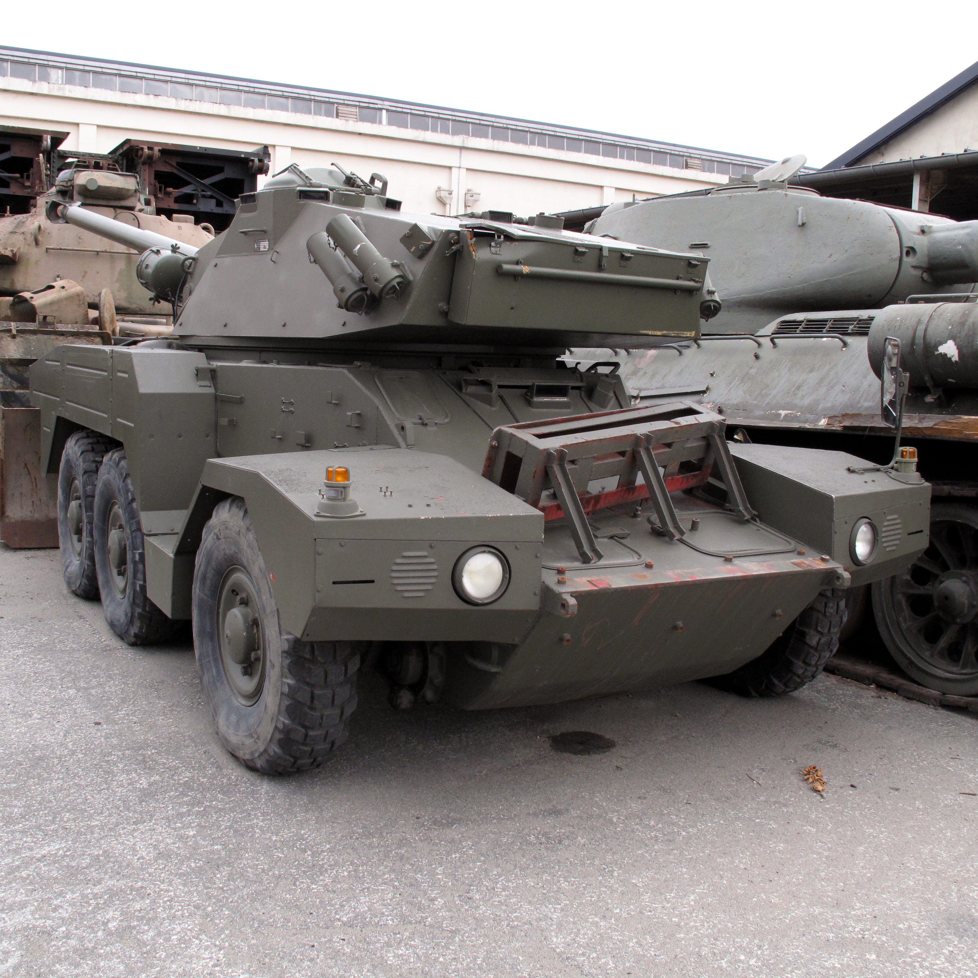 ERC 90 Sagaie. On display at Saumur Général Estienne museum.